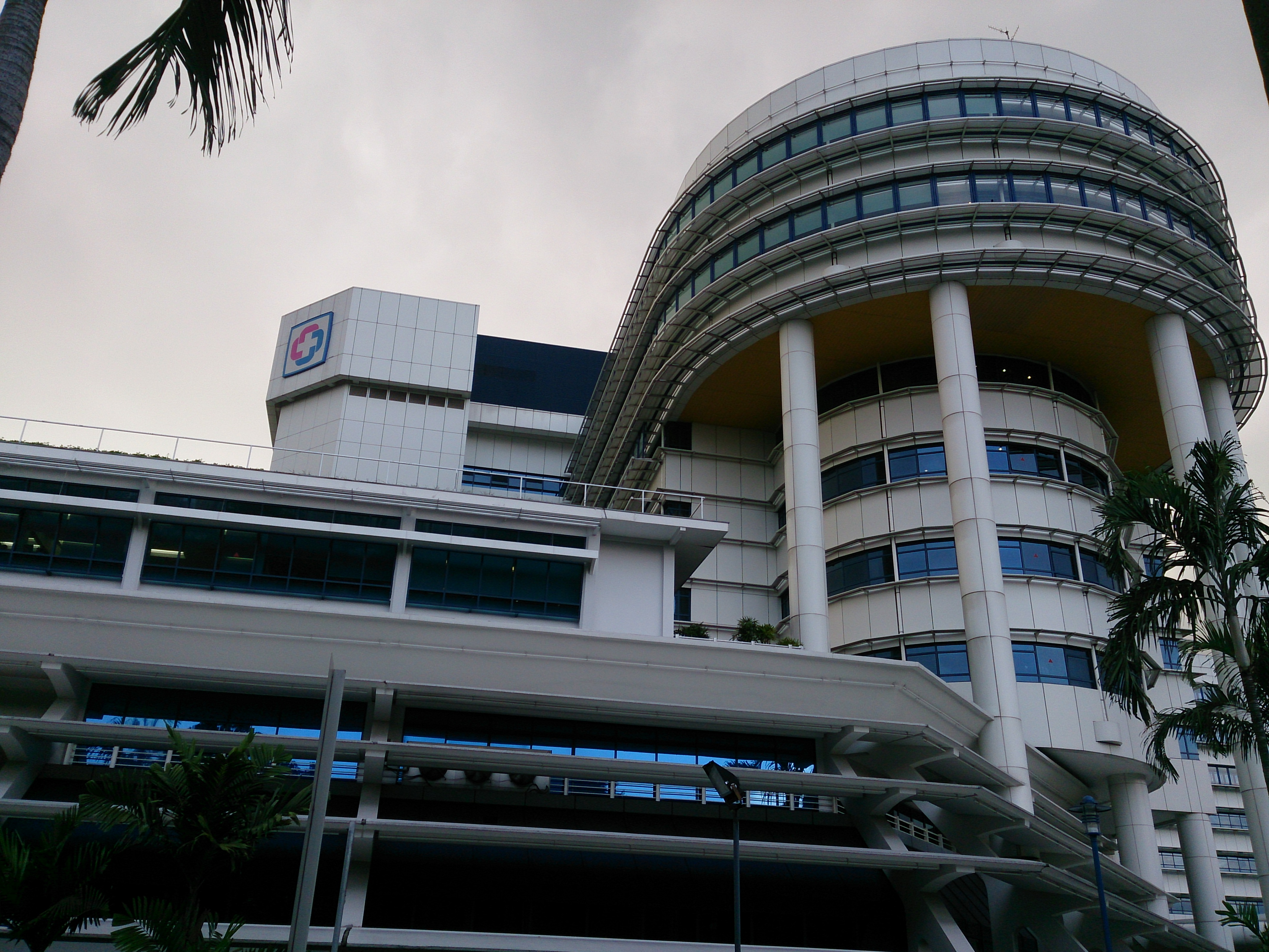 for kids and women. Singapore